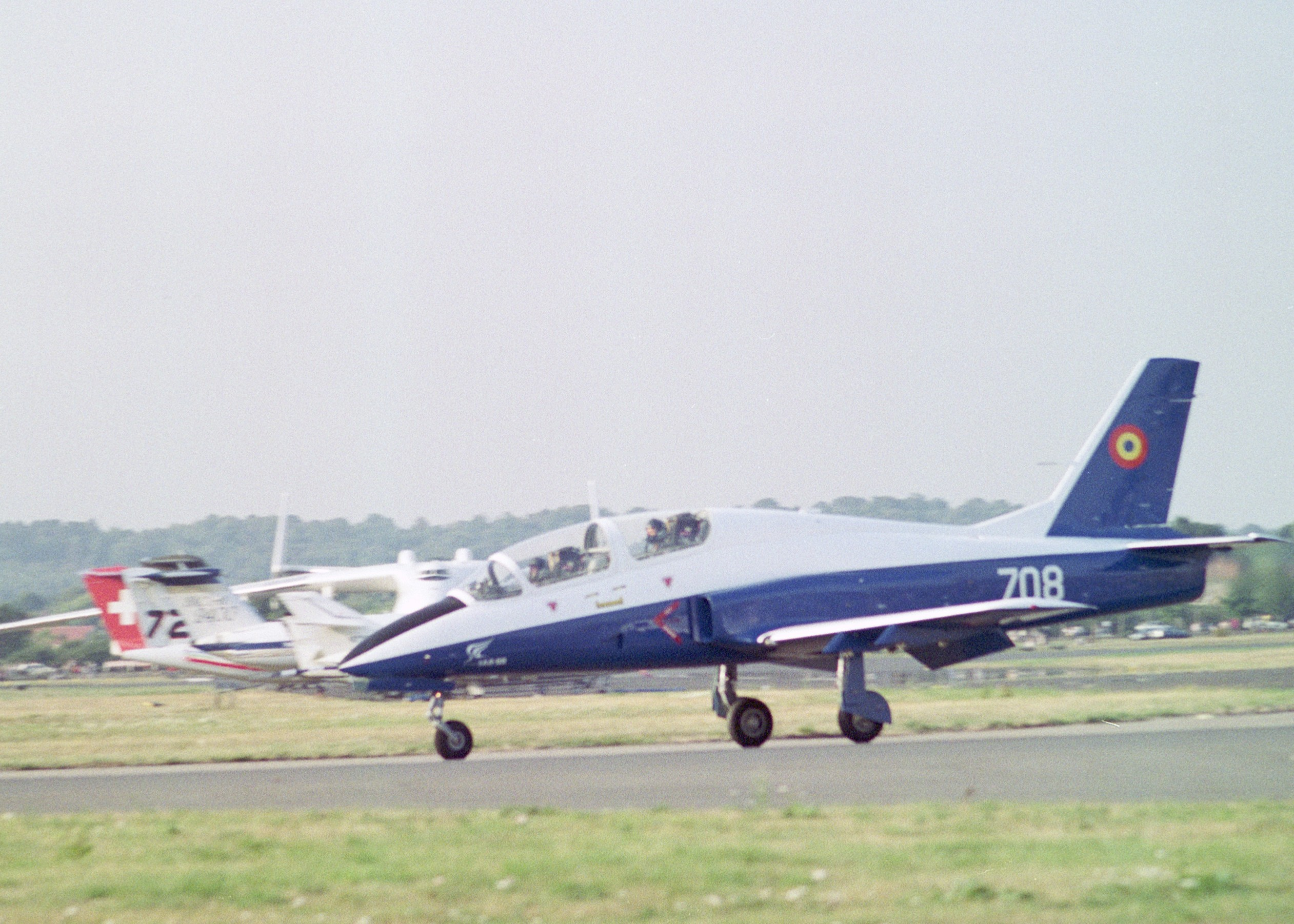 Farnborough (FAB / EGLF) UK - England, September 7, 1990.